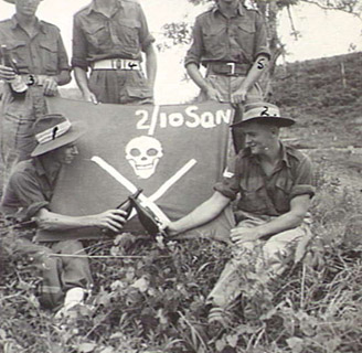 AWM Caption: KARAWOP, NEW GUINEA, 1945-09-18. THE SKULL AND CROSS-BONE FLAG, THE PRIDE OF 2/6 CAVALRY COMMANDO REGIMENT. ON EVERY BEER ISSUE DAY THE BOYS CROSS BOTTLES BEFORE THE FLAG. IDENTIFIED PERSONNEL ARE:- CPL K.E. WILLS (1); CPL C.T. CRAWLEY (2); SGT J.H. SIMPSON (3); WO 2 M.J. HODER (4); CPL O.A. POMROY (5).